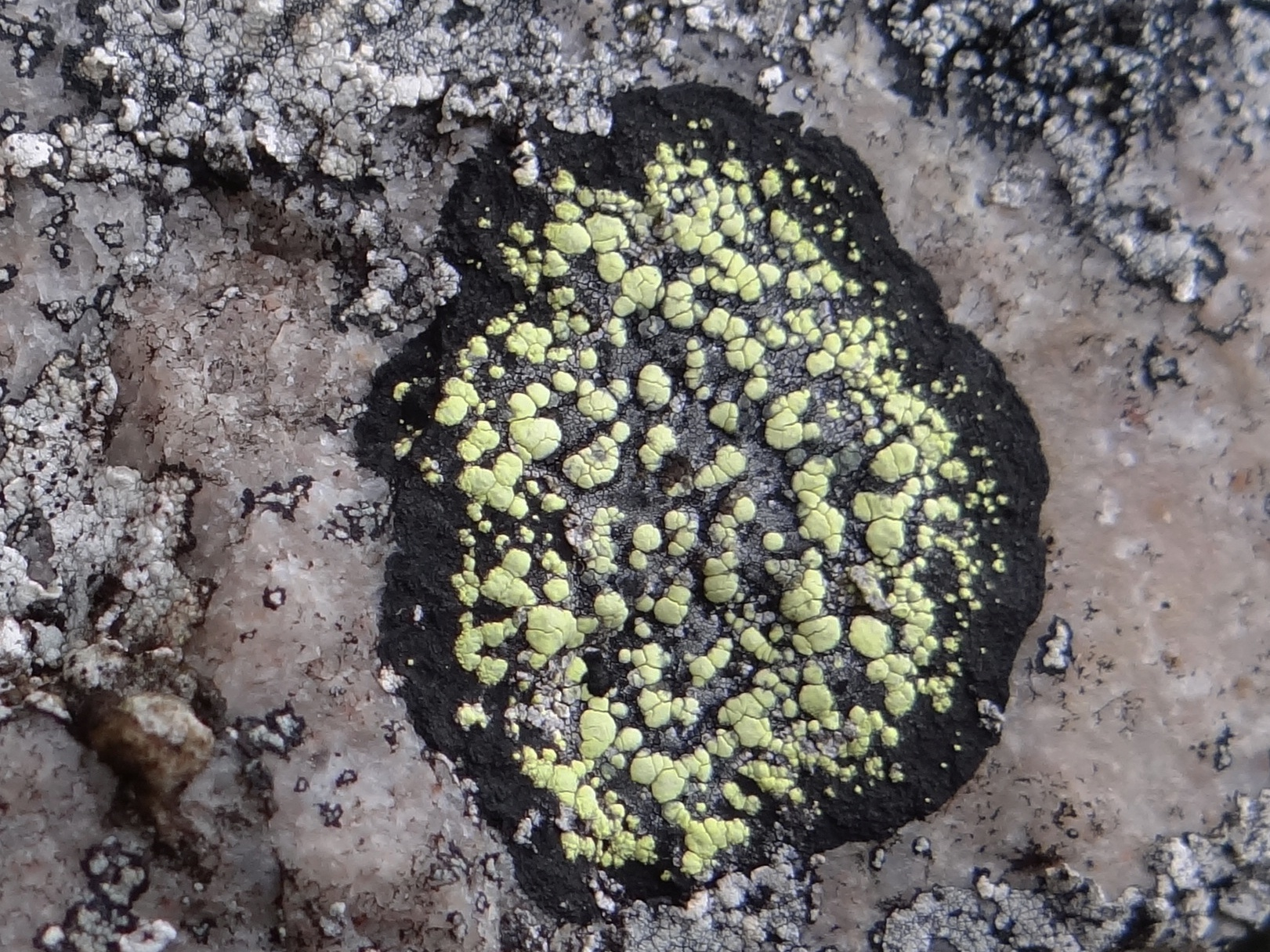 Rhizocarpon geographicum (location: Poland, Tatra Mountains, Kozia Dolinka)